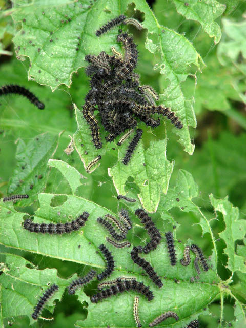 Caterpillars of all sizes feeding on nettle leaves